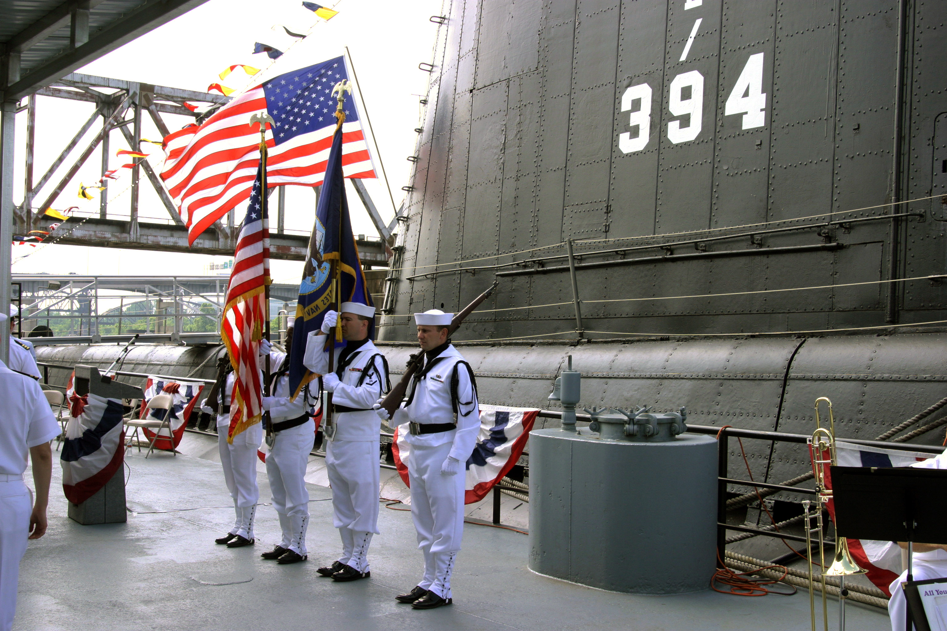 NORTH LITTLE ROCK, Ark. (May 21, 2007) - The Navy Operational Support Center (NOSC) Little Rock's Ceremonial Color Guard parades the colors to officially open a ceremony. During the ceremony, North Little Rock Mayor Patrick Henry Hays gave Navy representatives a proclamation officially naming May 21-28 as Little Rock Navy Week. Little Rock Navy Week is being conducted with cooperation between the Navy Office of Community Outreach, Navy Recruiting District Nashville and NOSC Little Rock. Navy weeks are designed to show American’s the investment they have made in their Navy and increase awareness in cities that do not have a significant Navy presence. U.S. Navy photo by Mass Communication Specialist 1st Class Steve Owsley (RELEASED)